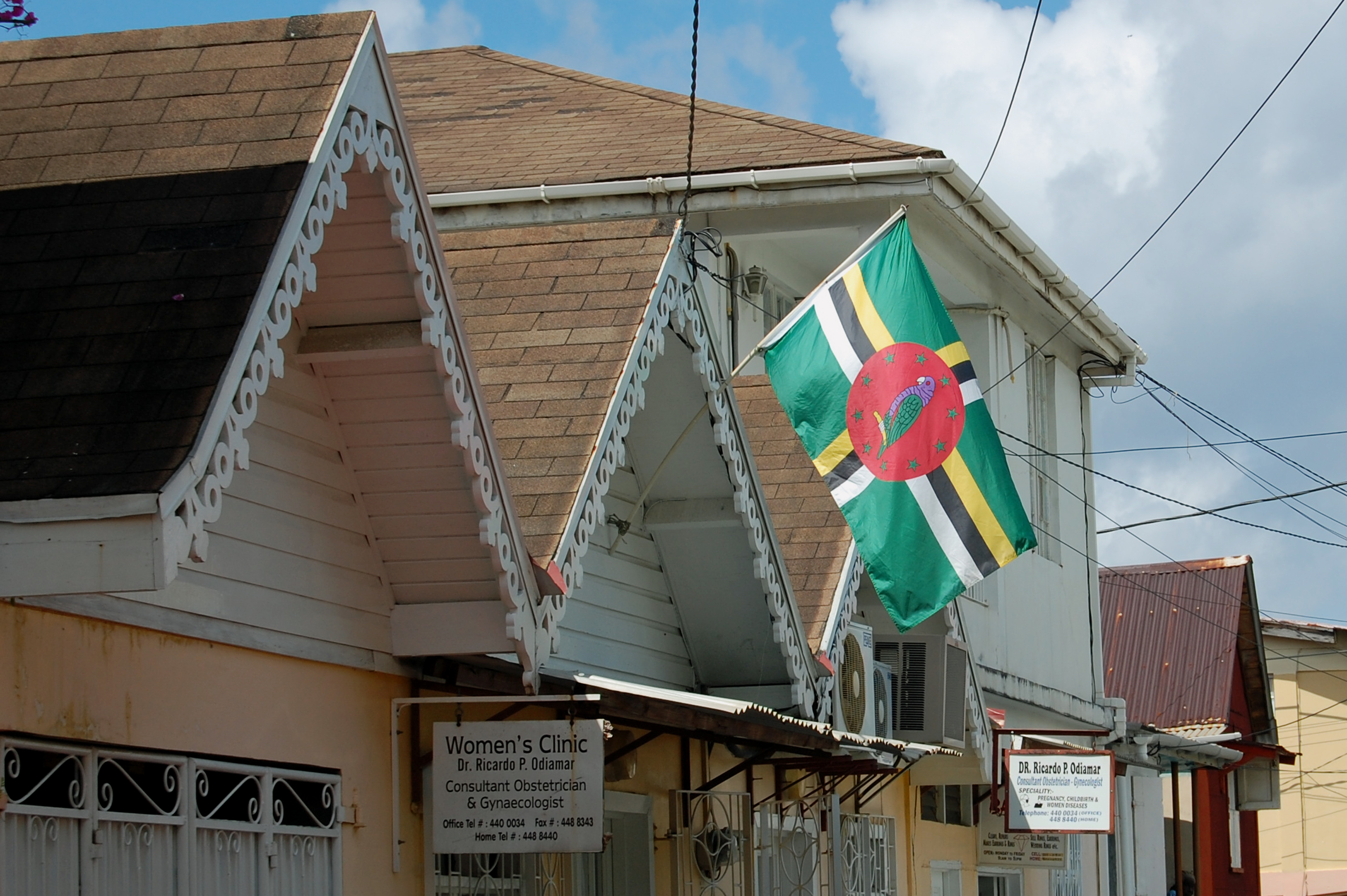 October, 2007. Dominica is an island in the Caribbean that is known as the "Nature Island" because of its dense rain forests. Much of it can be found as it was hundreds of years ago.